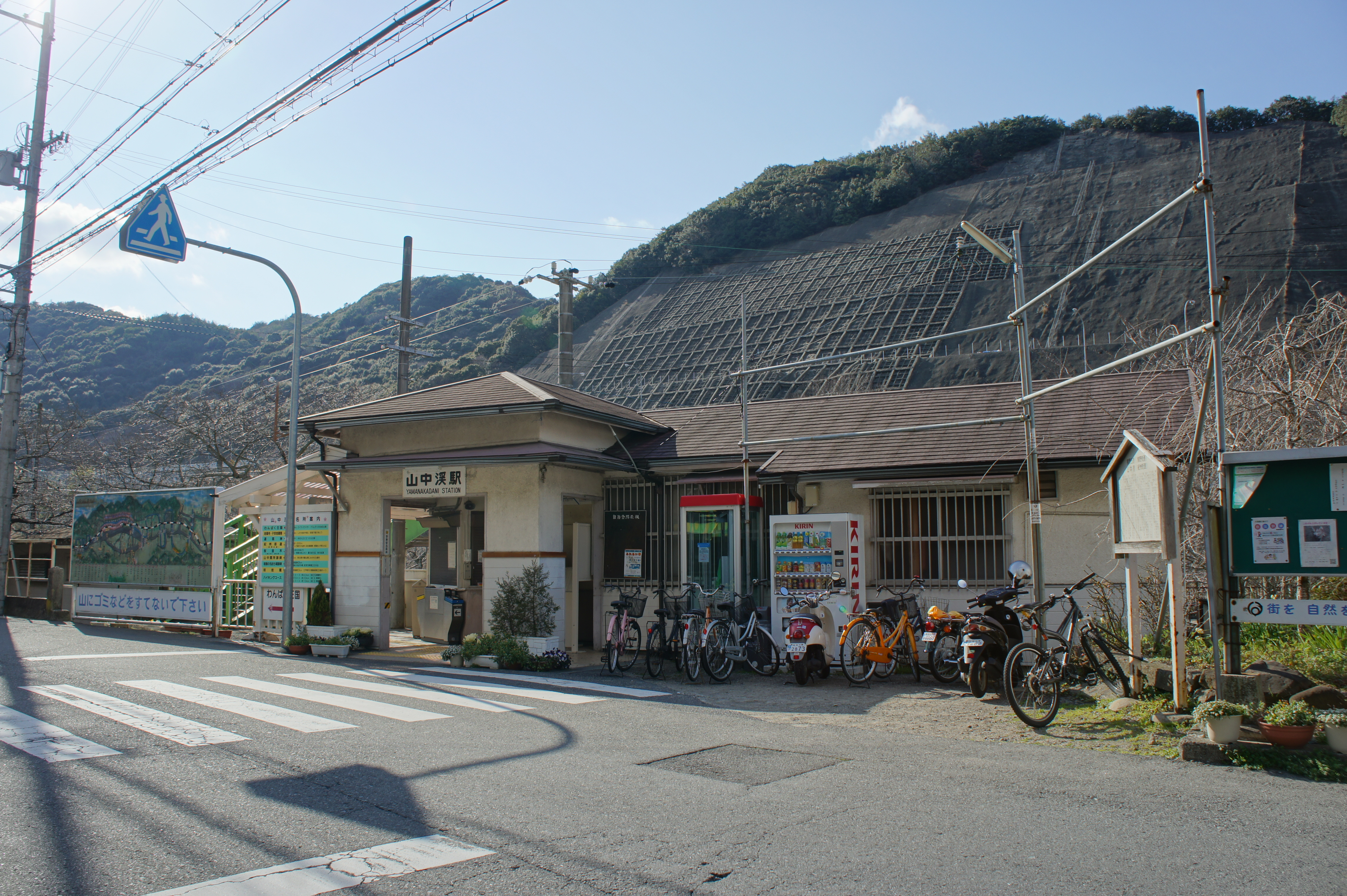 Yamanakadani Station (Hannan, Osaka Prefecture, Japan)